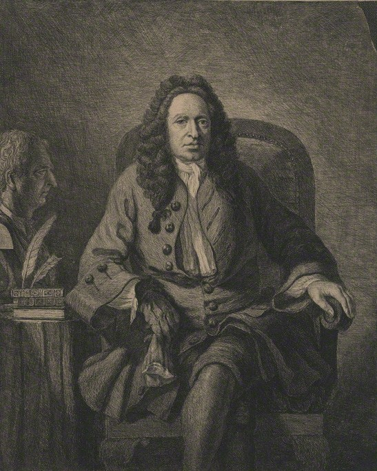 Portrait of Bryan Wilson (1680–1754), Irish physician.